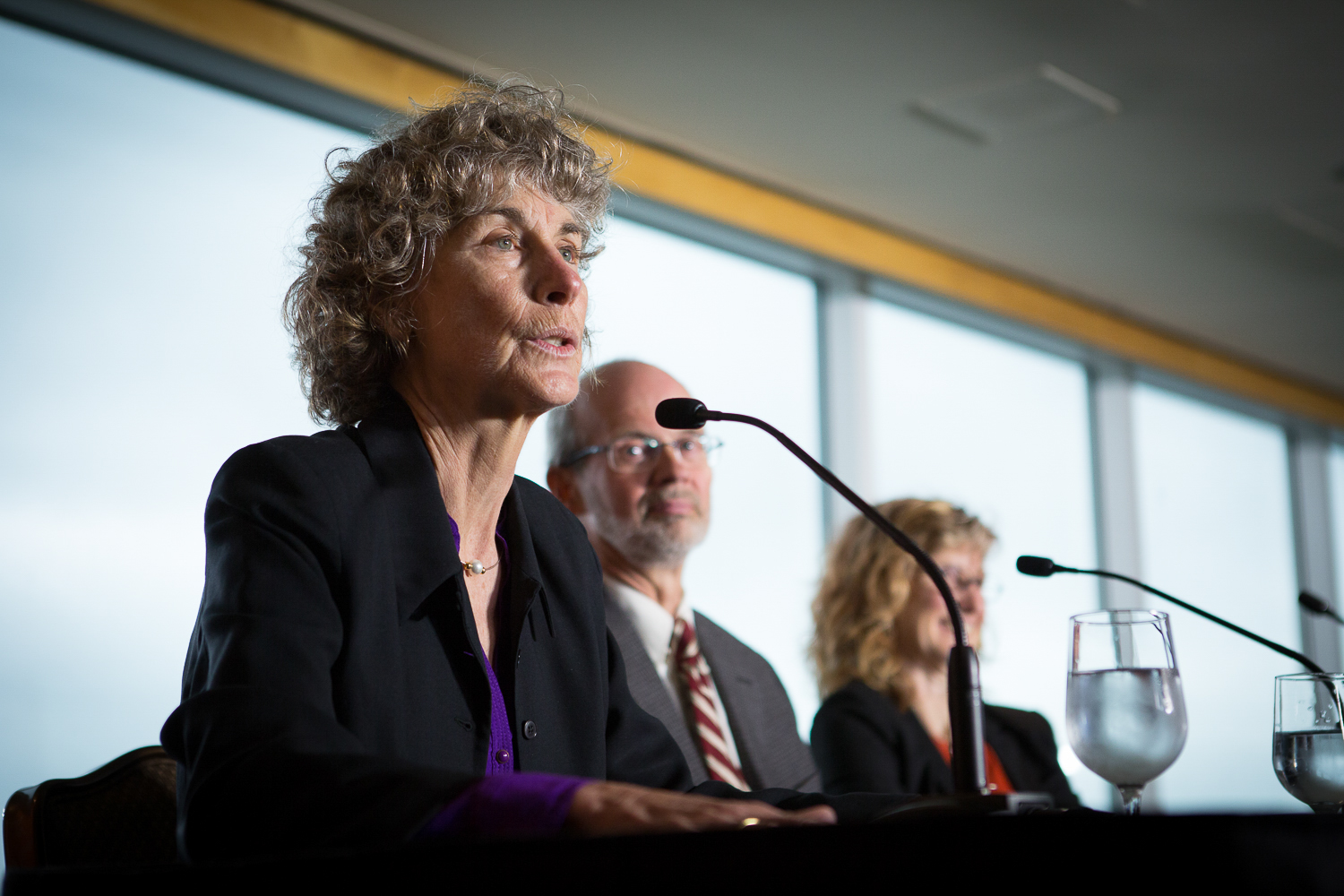 May 1, 2017. Vancouver, BC (Nancy Olewiler center in photo) John Horgan will restore BC as a climate action leader with a plan that focuses on reducing climate changing emissions, not letting them increase like Christy Clark has. “We can’t afford four more years of climate inaction from Christy Clark and the BC Liberals. The stakes are too high in this election,” said BC NDP leader John Horgan. “We have to come together to make sure we have a government that will take real action on climate change.” Horgan held a town hall meeting with several members of the Climate Leadership Team who Christy Clark tasked with renewing BC’s climate action. Clark chose to reject the team’s recommendations despite their careful consideration of the impacts on people, the economy, industry and the environment.